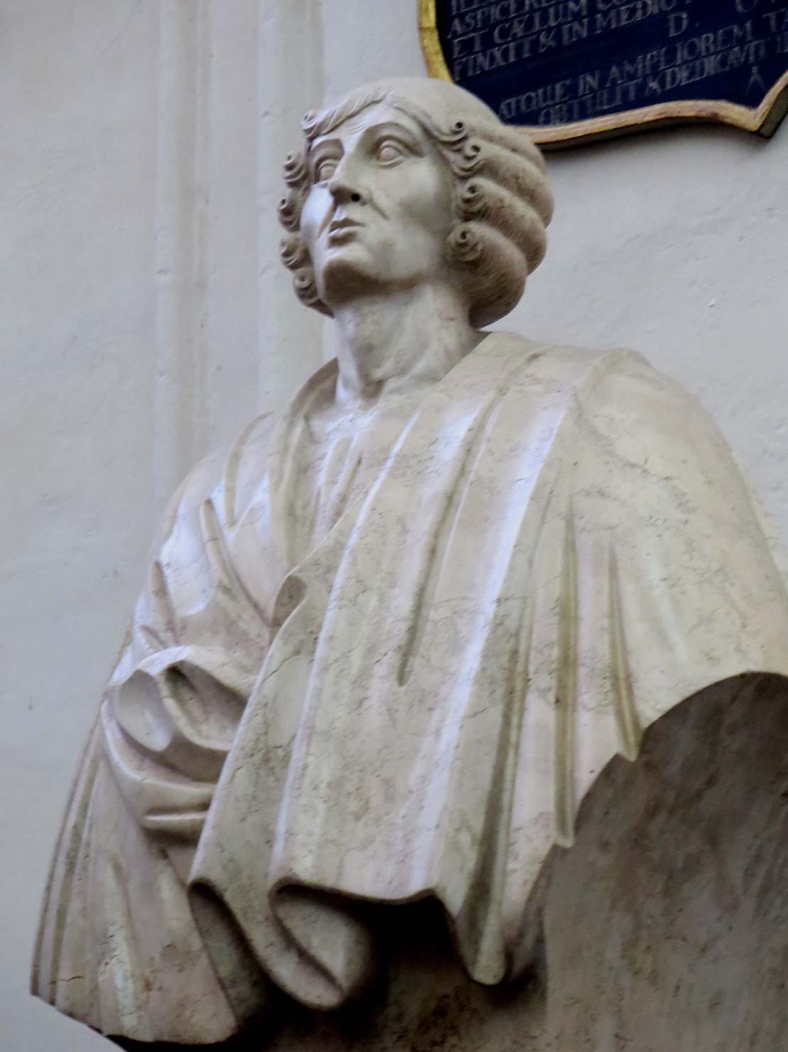 1766 Nicolas Copernicus bust by Wojciech Rojowski. This is the oldest Copernicus sculpture. Location: Toruń St.Johns cathedral.